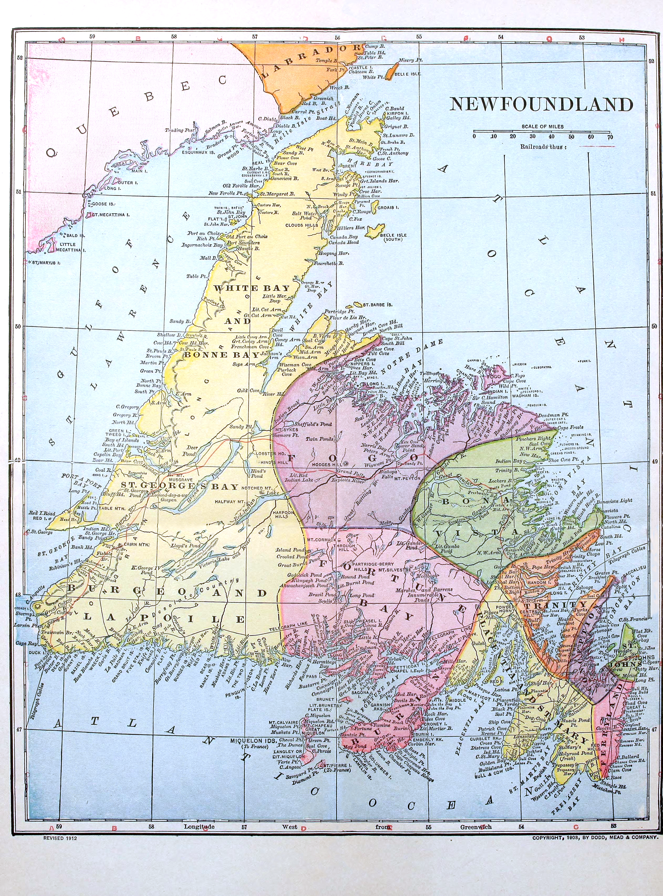 Map from book improved for color